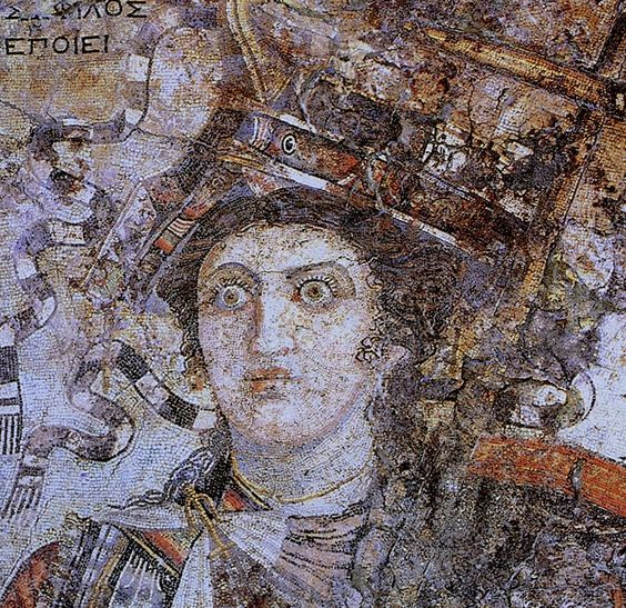 Mosaic from Thmuis, Egypt, created by the Hellenistic artist Sophilos (signature) in about 200 BC, now in the Greco-Roman Museum in Alexandria, Egypt. The woman depicted in the mosaic is the Ptolemaic Queen Berenike II (who ruled jointly with her husband Ptolemy III) as the personification of Alexandria. Dr. Joann Fletcher (Cleopatra the Great: The Woman Behind the Legend, New York: Harper, 2008, ISBN 978-0-06-058558-7, plates between pp. 246-247) writes that: “"her ship's prow crown and anchor-shaped brooch emphasised her key role in naval successes during her joint reign with husband Ptolemy III."”